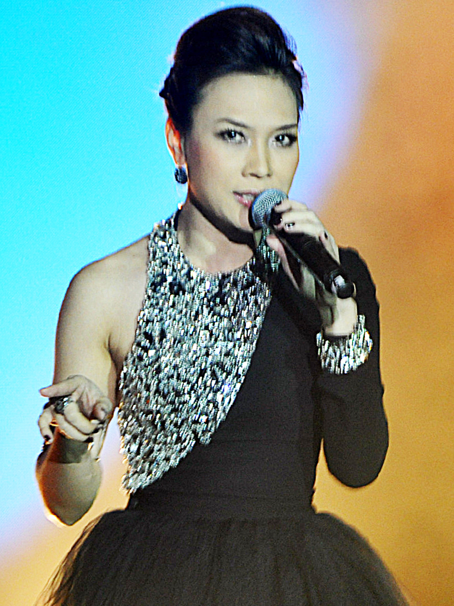 Photo: USAID/Vietnam